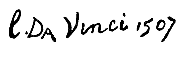 This signature is believed to be ineligible for copyright and therefore in the public domain because it falls below the required level of originality for copyright protection both in the United States and in the source country (if different). In this case, the source country (e.g. the country of nationality of the signatory) is believed to be Italy. Note that this tag cannot be used on all signatures, as not all signatures are copyright-free. See Commons:When to use the PD-signature tag for an explanation of when the tag may be used.